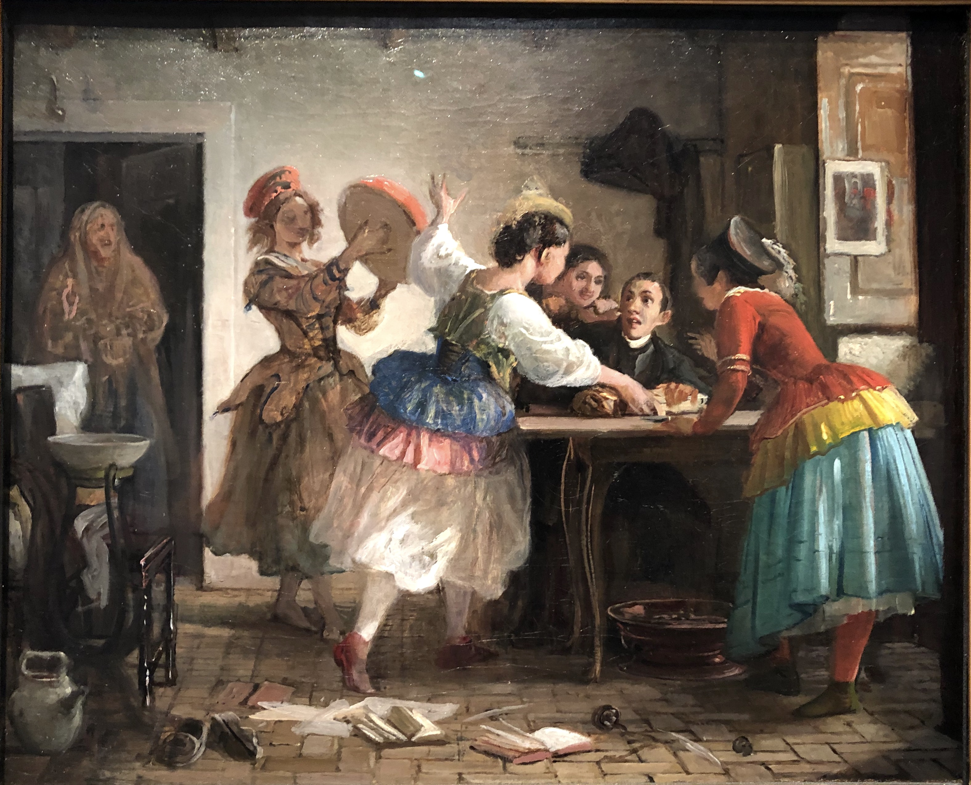 Scene from the Roman carnival.